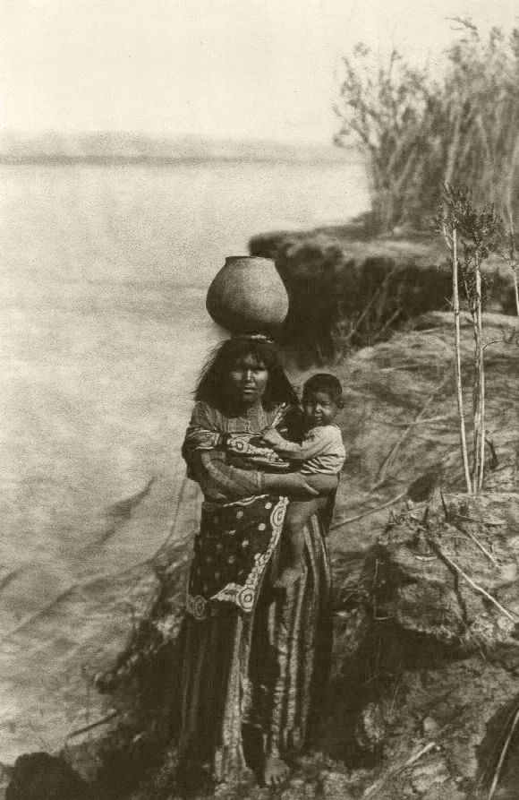 "Mohave water carrier" — A woman and child of the Mohave people, on the Colorado River in the Mojave Desert, California. 1908 sepia photograph by Edward S. Curtis.